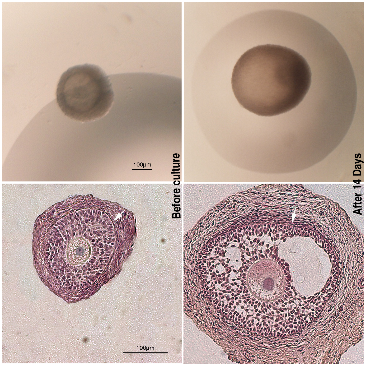 Micro-fotografías de ovocitos dento de sus folículos. On the left panels, examples of preantral (PA) follicles used for the culture and analyzed under a stereomicroscope (on the top) and after staining with haematoxylin/eosin (HE) (at the bottom). On the right panels, early antral (EA) follicles cultured for 14 days and analyzed under a stereomicroscope (on the top) and after staining with haematoxylin/eosin (at the bottom). Either in PA and EA follicles HE staining showed the presence of a compact layers of granulosa cells and a theca compartment with several fusiform cells (arrows).